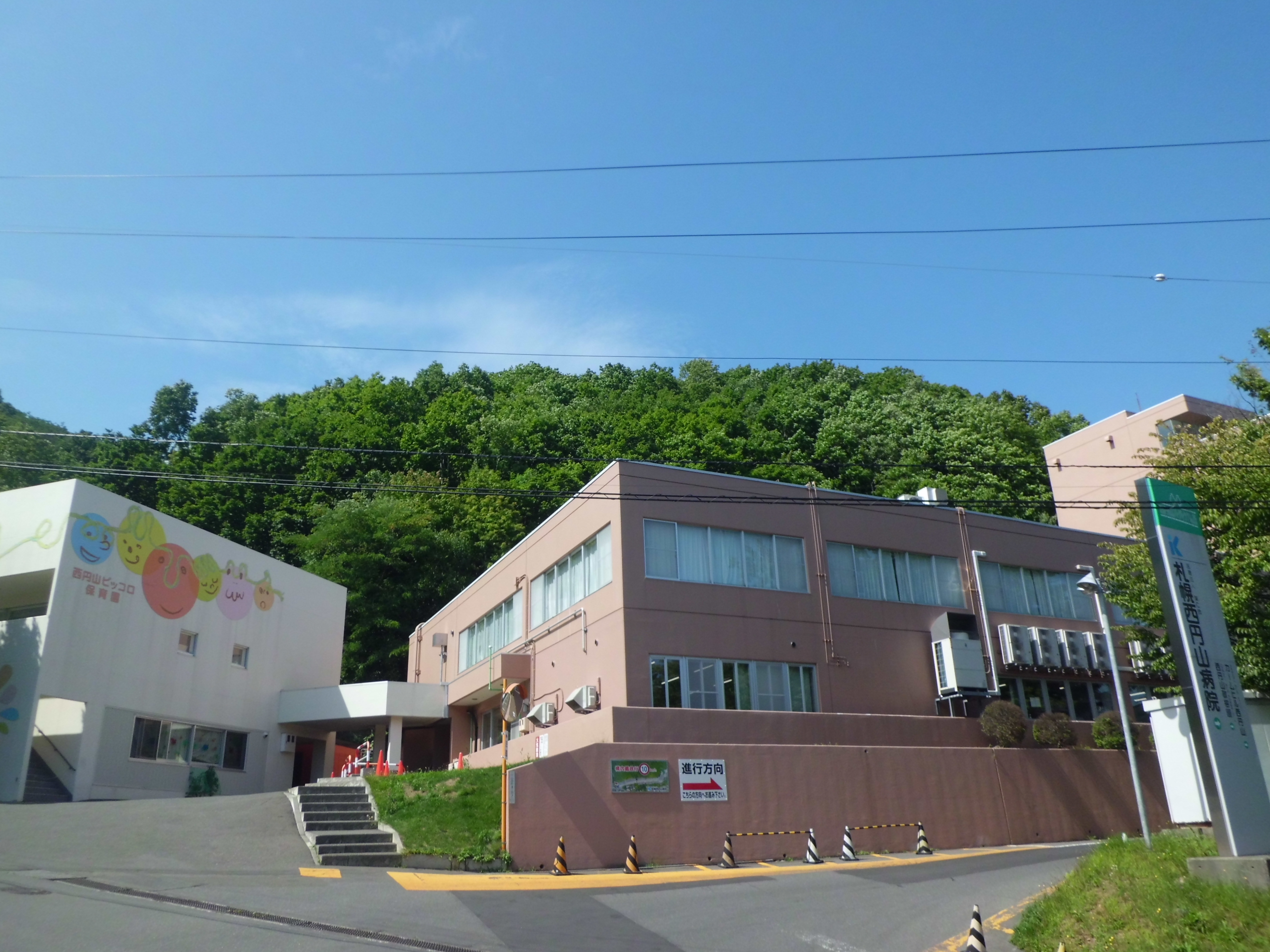 Sapporo Nishi Maruyama Hospital